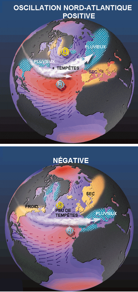 Variation of the weather patterns by the North Atlantic Oscillation.